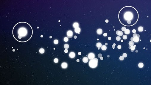 Logo of Opinion Space